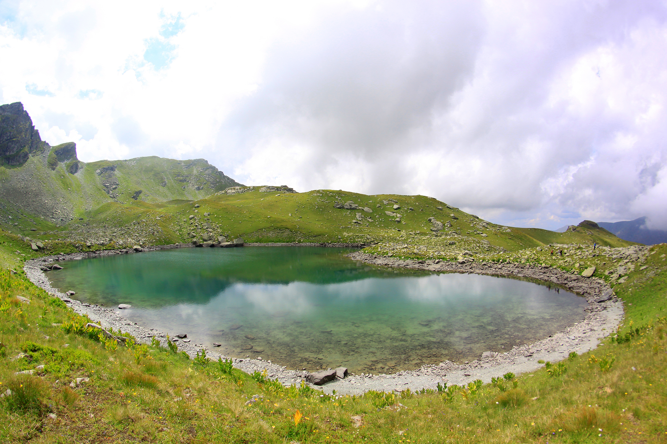 Crystal clear lake known as Heart lake of Gjeravica is located between mountains Gjeravica and mountains of Pllaqica e Vokshit